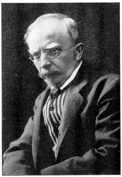 Portrait photograph of Norwegian composer Christian Sinding